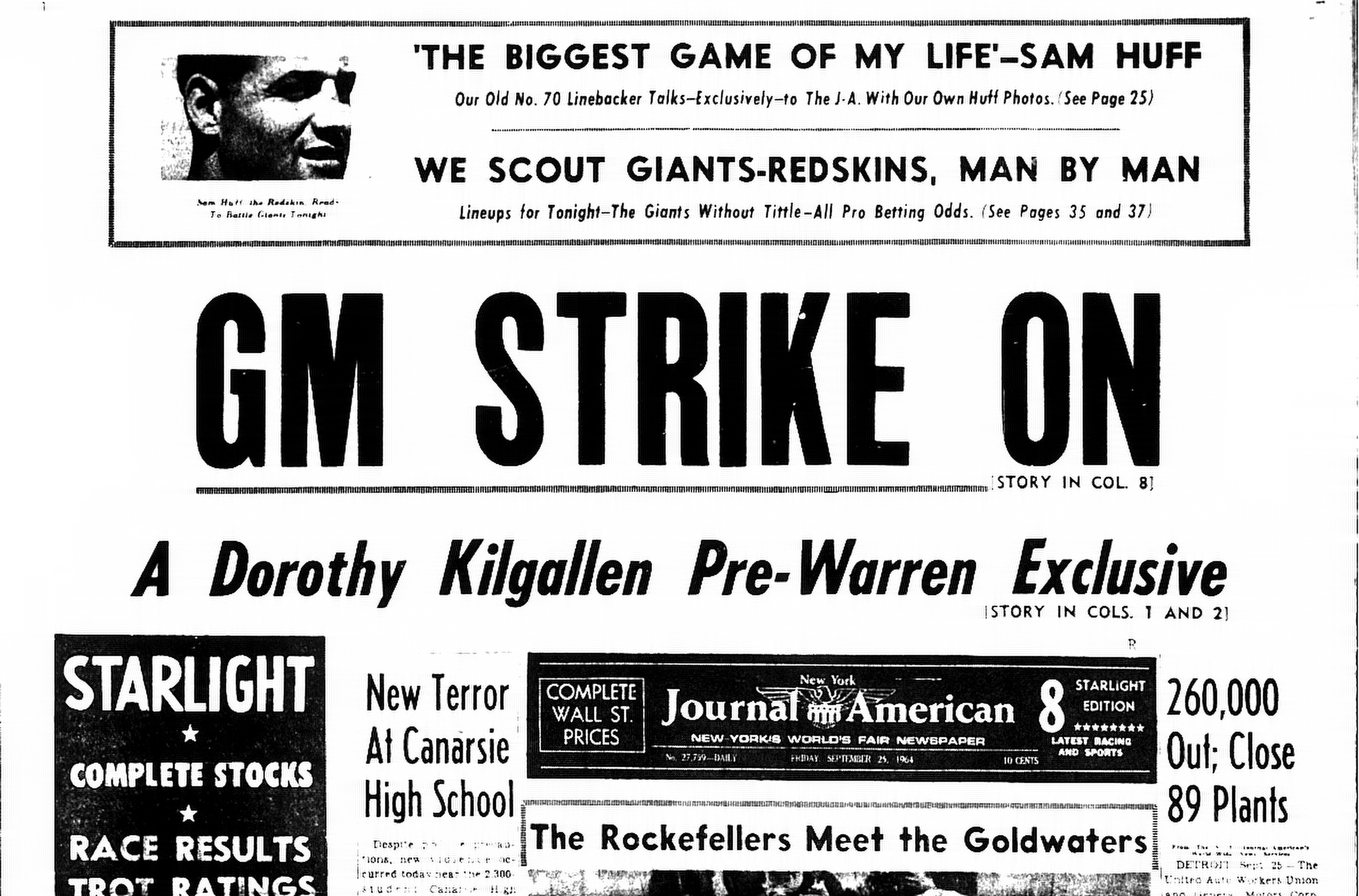 digital scan from microfilm owned by Library of Congress, which is a U.S. government agency